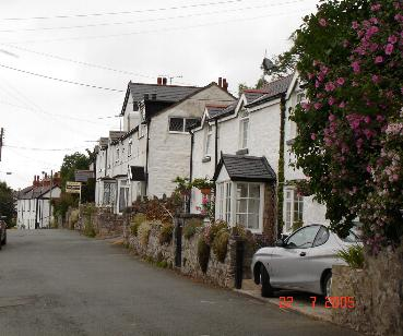 Lower Foel Road in Dyserth. Cottages at Lower Foel Road in Dyserth